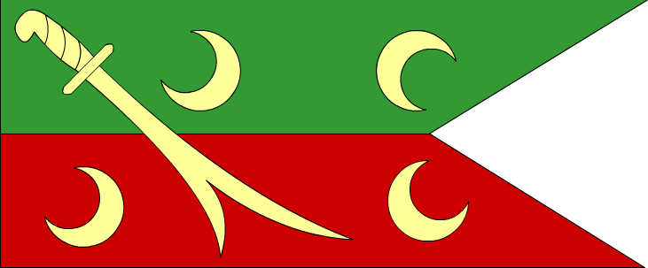 Military flag of Knights (Sipahi) of the Ottoman Empire. Turkish: Sipahi Sancağı. Latvian: Bruņinieku (sipahi) karogs.